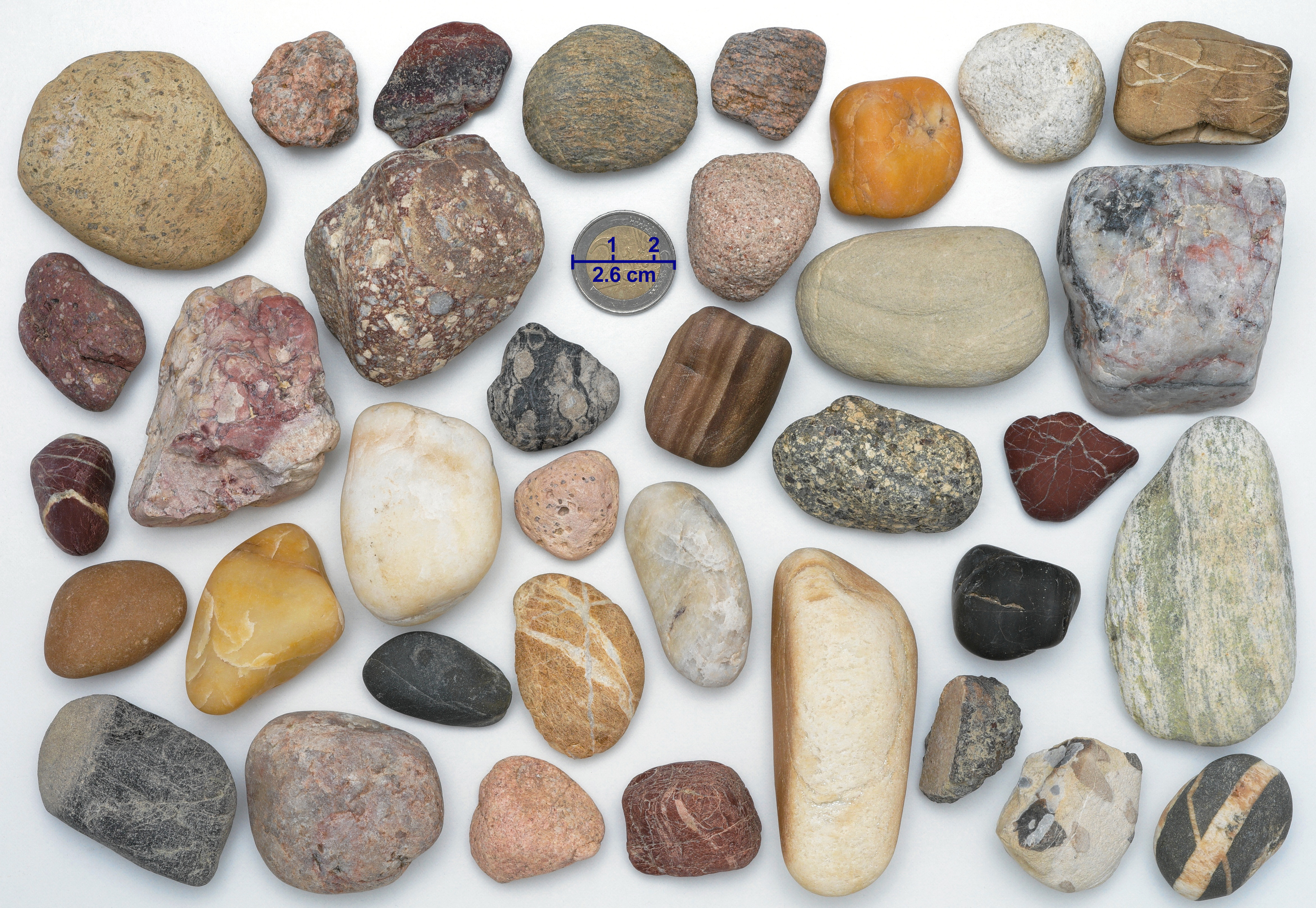 A non-representative selection of stones found at the bankside of Schertle-See, a gravel pit near Rastatt in the Upper Rhine Graben. File:Niederterrassenschotter, Schertle-See IMGP7130.jpg gives a more representative impression of the site.